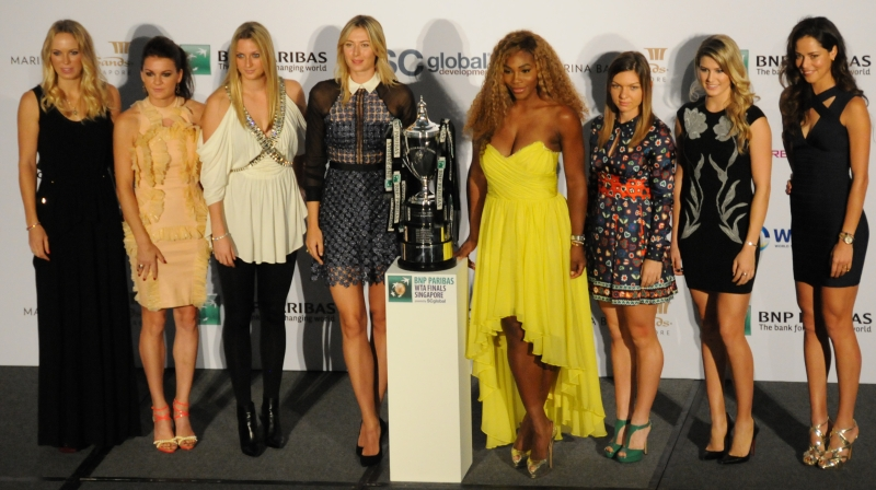 The eight competitors in the 2014 WTA Finals. From left: Caroline Wozniacki, Agnieszka Radwańska, Petra Kvitová, Maria Sharapova, Serena Williams, Simona Halep, Eugenie Bouchard and Ana Ivanović at the WTA Finals 2014 Single's draw ceremony, Singapore.